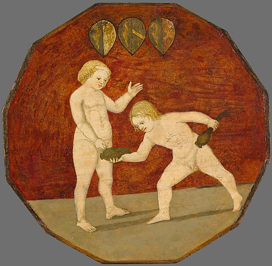 Apollonio di Giovanni. Naked boys with poppy pods (verso). 1450-60, North Carolina Museum of Art, Raleigh.